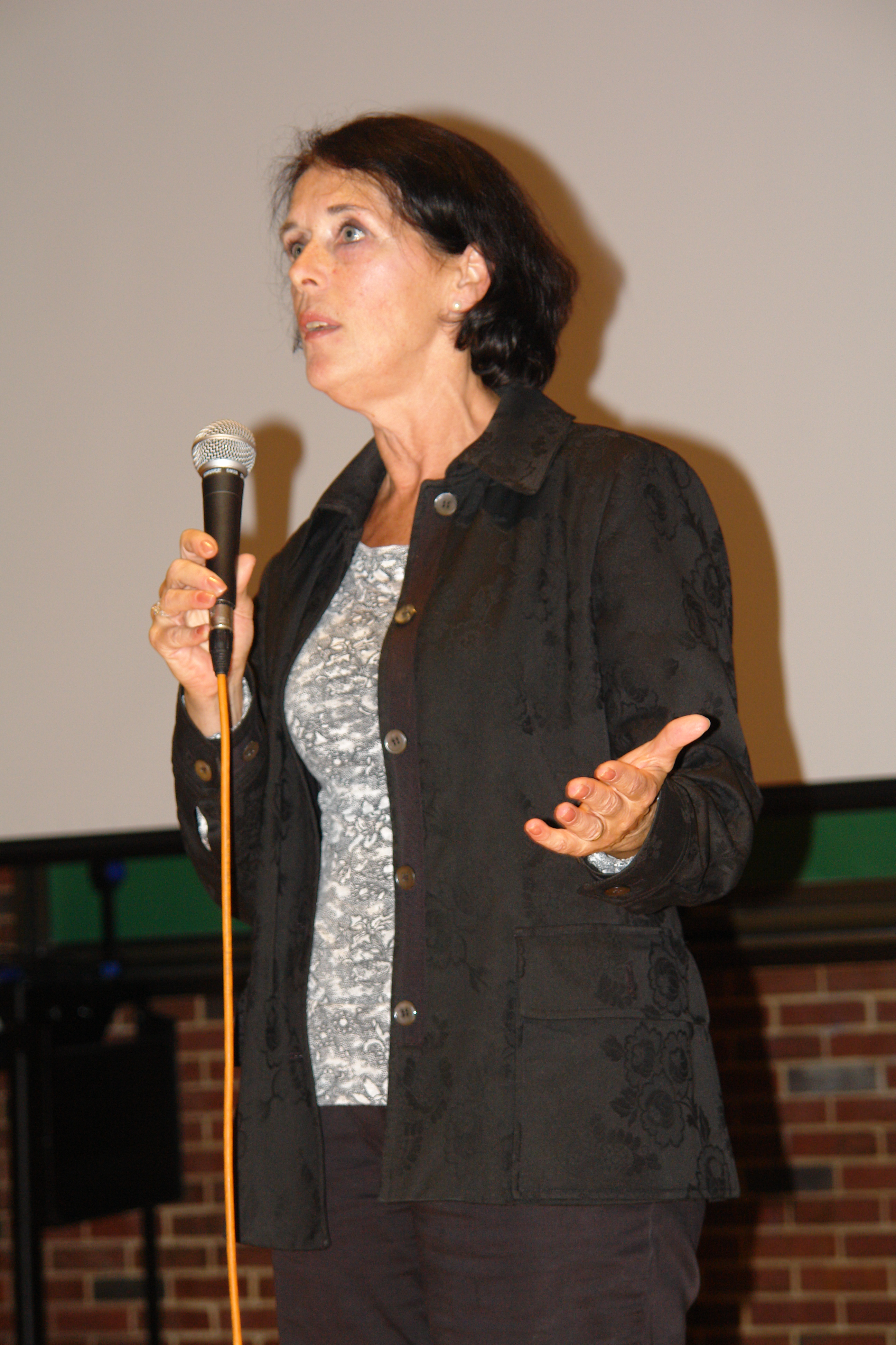 "Mother of the Superfund" Lois Gibbs, the mother who fought chemical companies at Love Canal in the 1970s, talks to sulfide mining opponents at Northern Michigan University in Marquette, MI